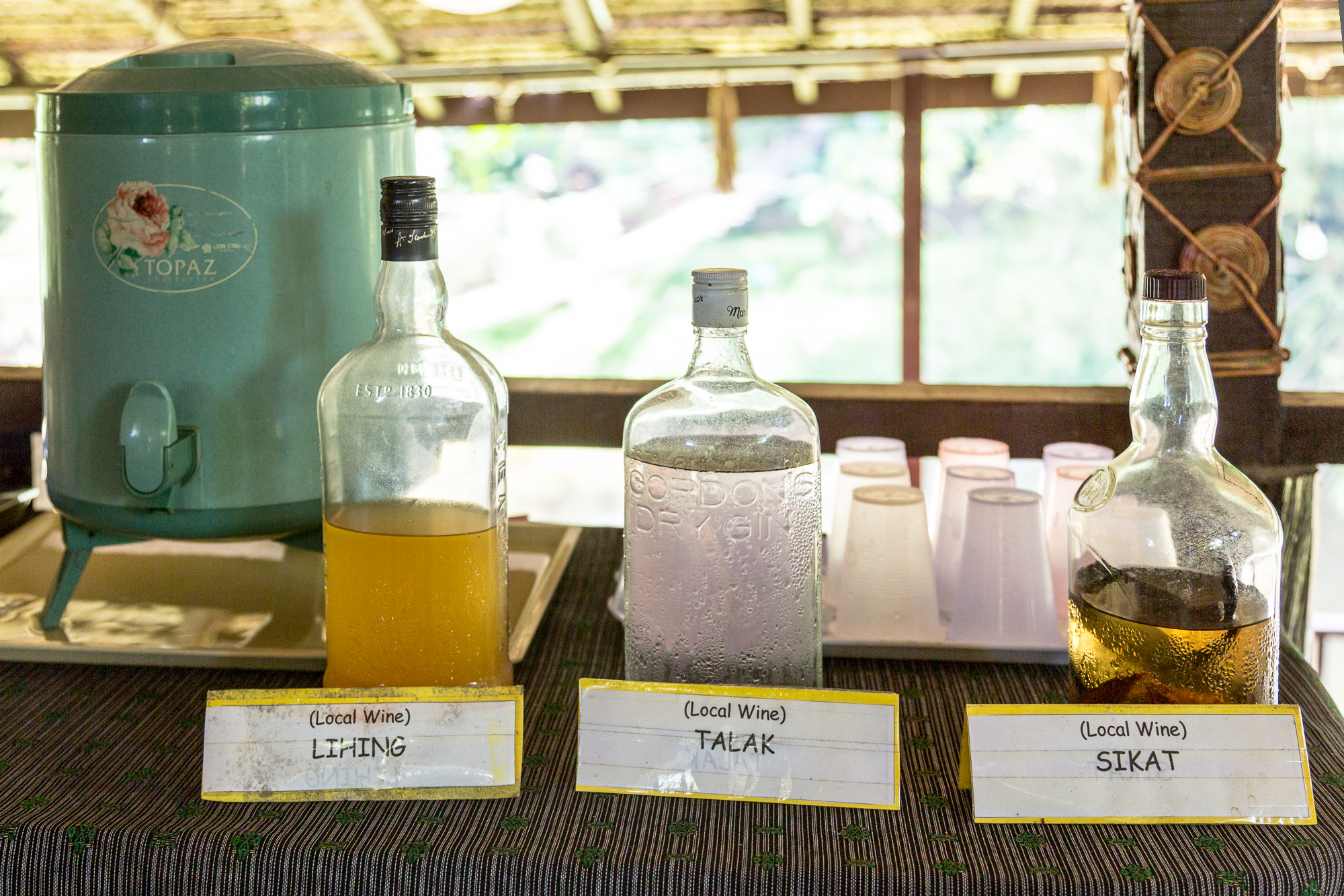 Kg. Kuai Kandazon, Penampang, Sabah: LIHING, TALAK and SIKAT - Traditional rice liqueurs/schnaps; displayed in the Monsopiad Cultural Village